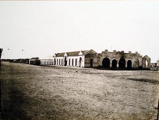 The first Retiro station building, built for the Buenos Aires to San Fernando Railway (then renamed Buenos Aires Northern Railway, finally acquired by the Central Argentine Railway). The current building was opened in 1915.